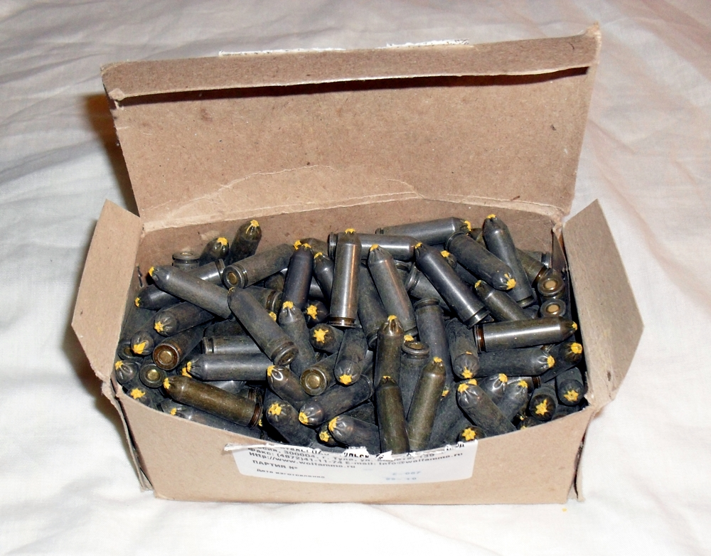 MPU-3 blank cartridges for direct fastening.